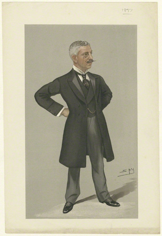 Caricature of Reginald Wingate. Caption read "In the Mahdi's Camp".